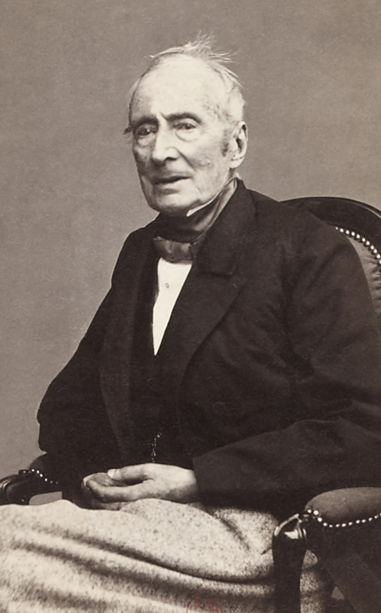 Alphonse de Lamartine (1790-1869)